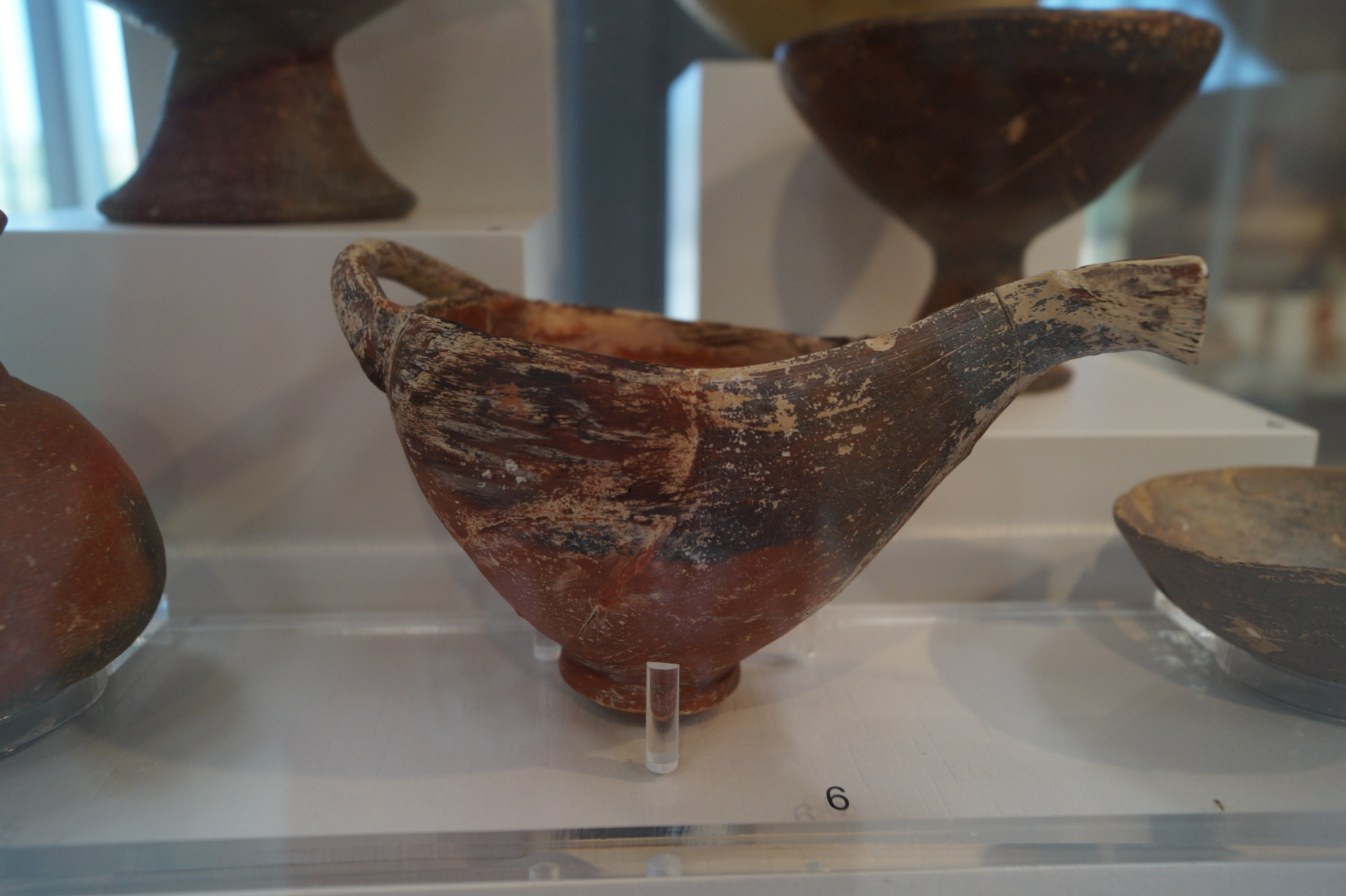 Archaeological Museum of Isthmia: Sauceboat from the Early Helladic cemetery north of ancient Schoenus (2550-2100 BC).